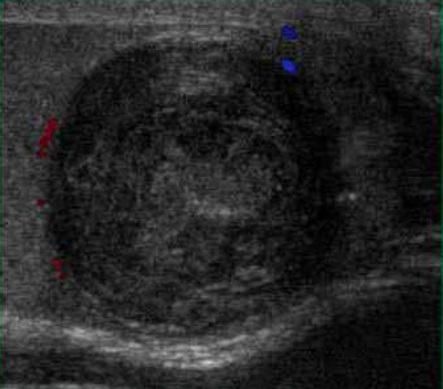 Scrotal ultrasonography of an epidermoid cyst.